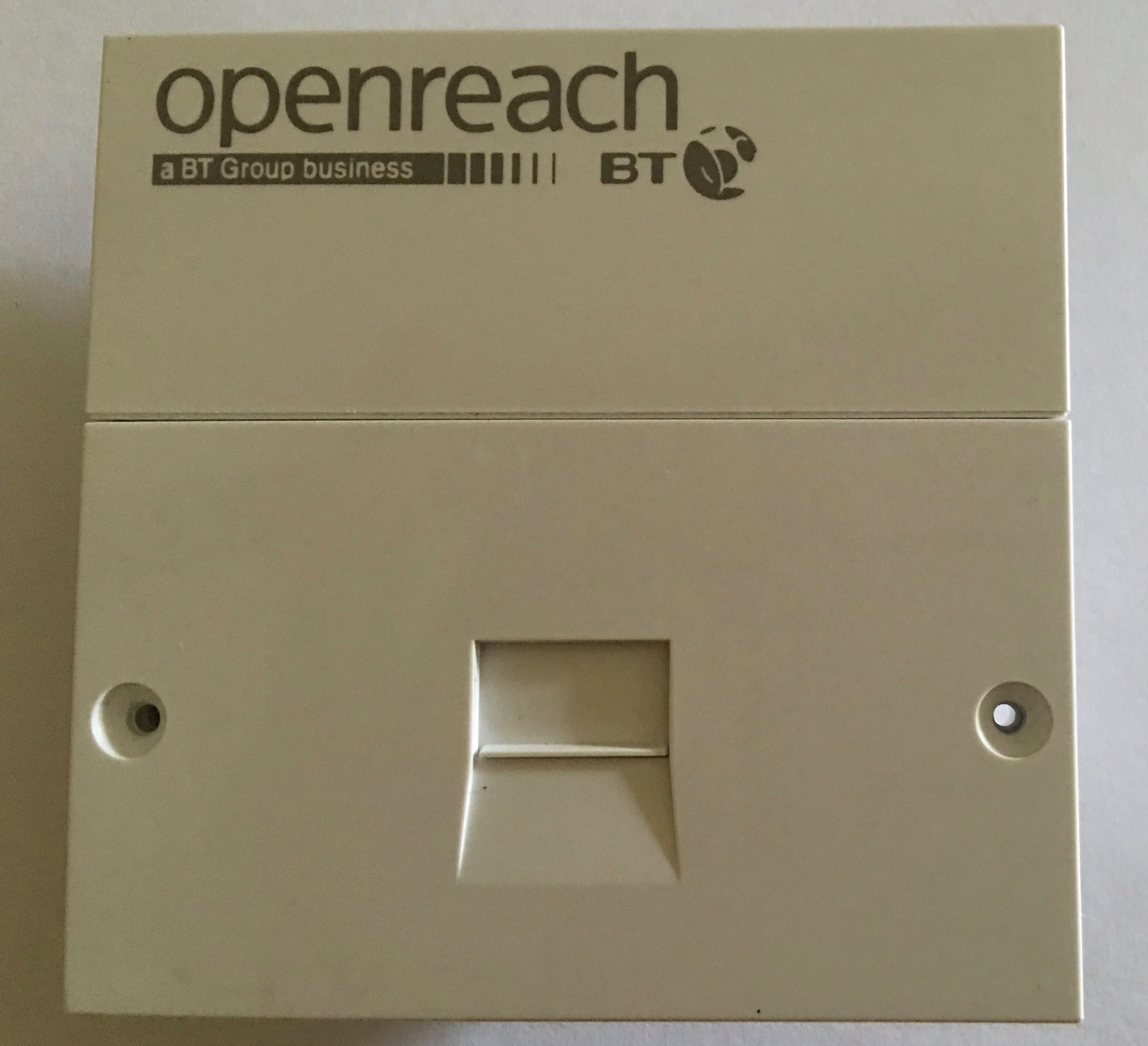 Latest BT Master Socket NTE5